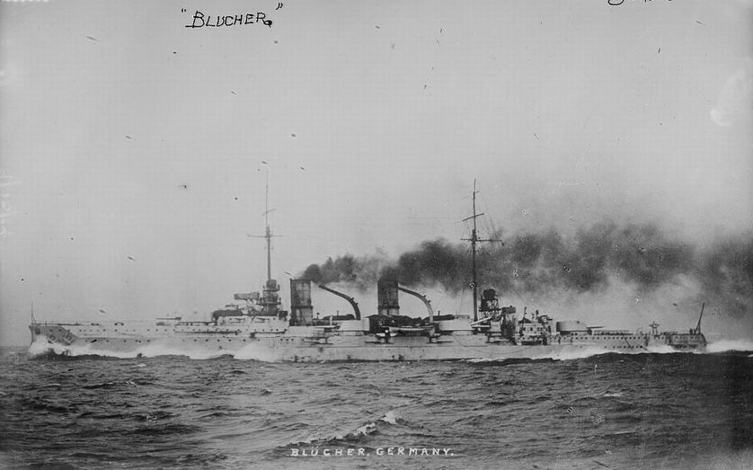 The SMS Blücher, the last armored cruiser produced by the German Empire. She was sunk in the Battle of Dogger Bank in 1915.